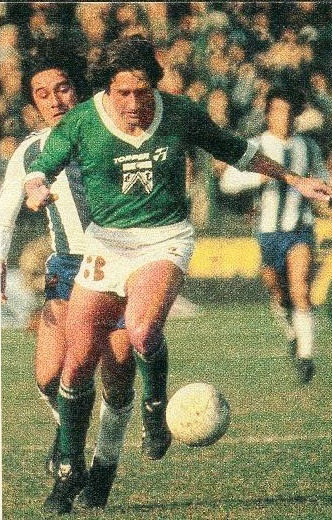 Oscar Garré playing for Ferro Carril Oeste in 1982.